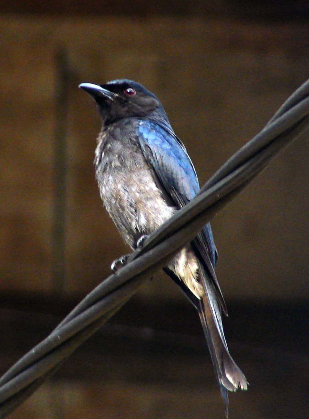 White-bellied Drongo Dicrurus caerulescens leucopygialis, Dharga Town, Sri Lanka